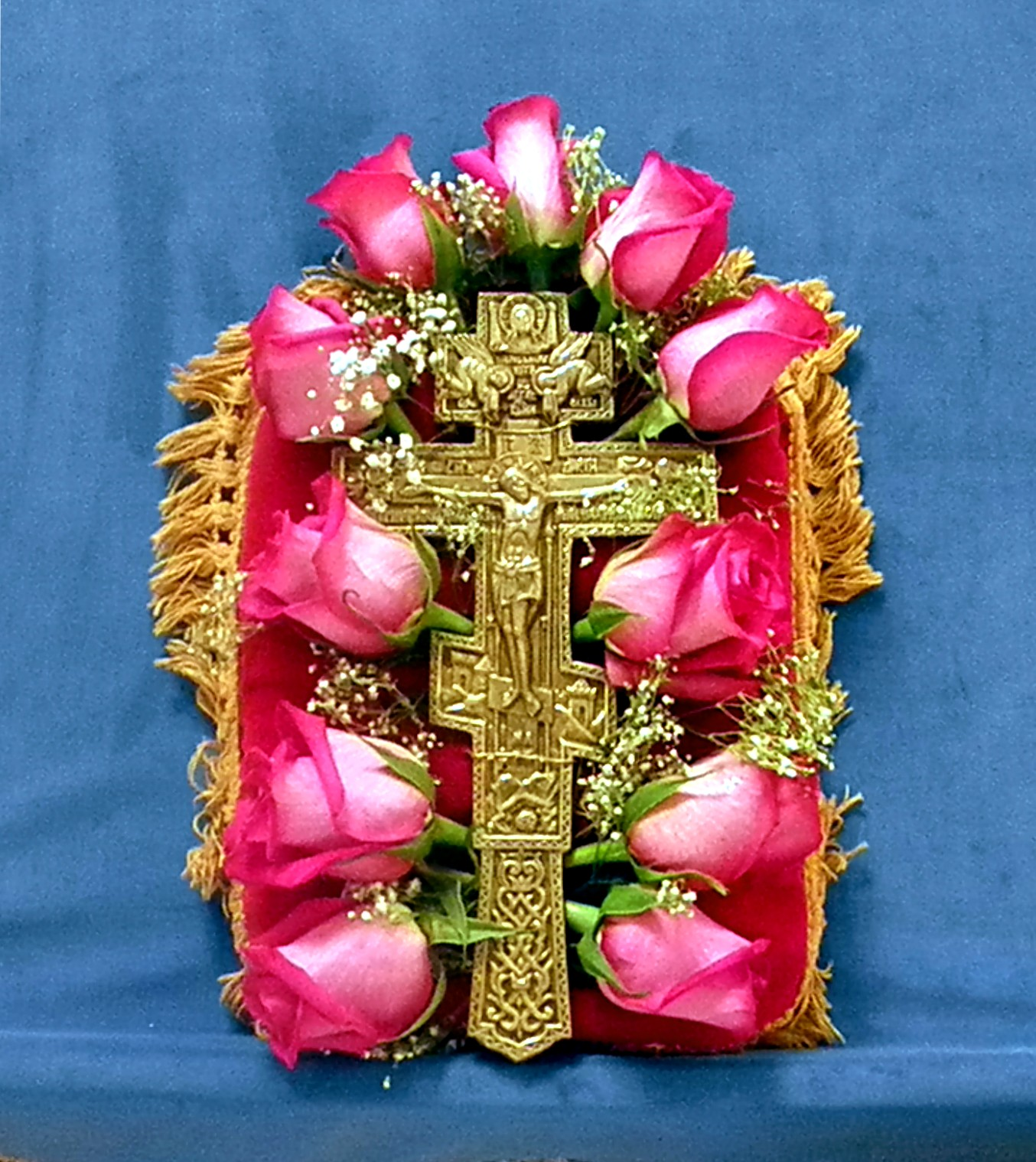 Orthodox Cross set for special veneration on the feast day of The Universal Exaltation of the Precious and Life Giving Cross (September 14/27). Christ the Saviour Orthodox Sobor, Ottawa, Ontario, Canada, 2011.